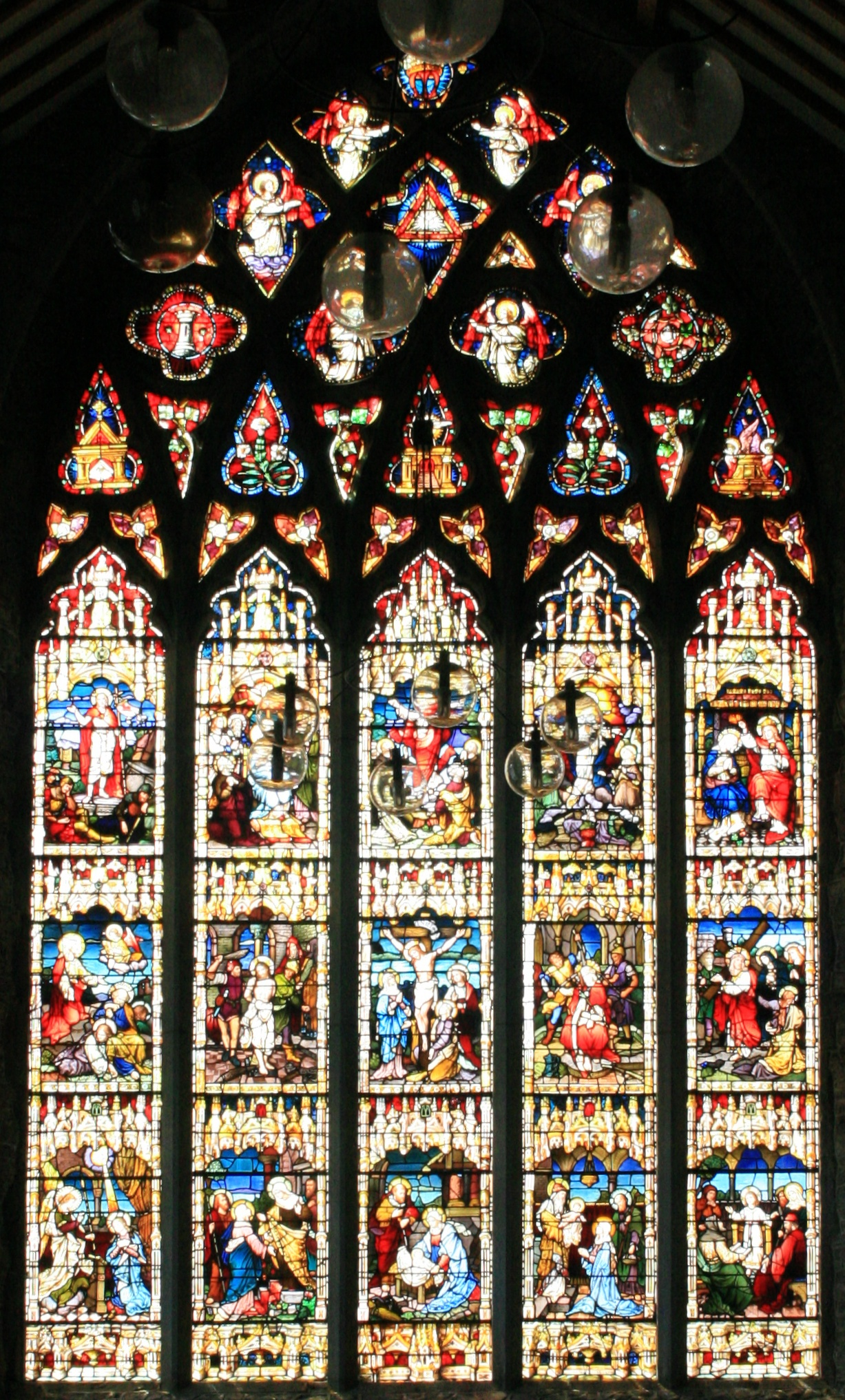 Kilkenny, Co. Kilkenny, Ireland Early 14th-century window of the south transept, also called Rosary window, of the Black Abbey. It was glazed by Mayer and Co. of Munich in 1892. See Hugh Fenning: The Black Abbey: The Kilkenny Dominicans 1225-1996, p. 1, 37. See also the corresponding view from outside. Franz Borgias Mayer (1848–1926) Alternative names Mayer, FranzDescriptionGerman stained-glass artistDate of birth/death 1848 1926 Work location Munich Authority control : Q21000395 VIAF: 80993958 GND: 136691900 creator QS:P170,Q21000395